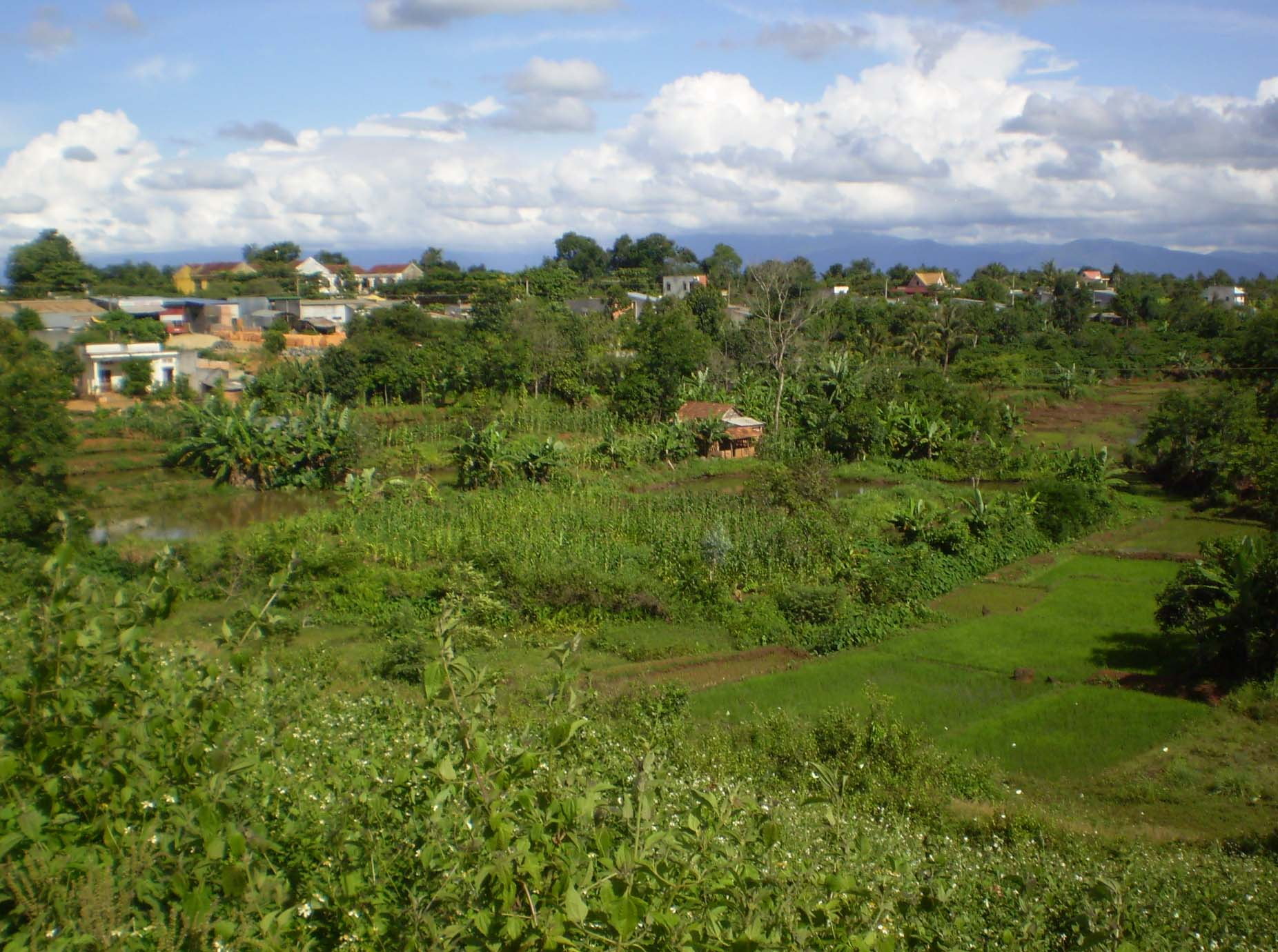 Village of Ea Ning